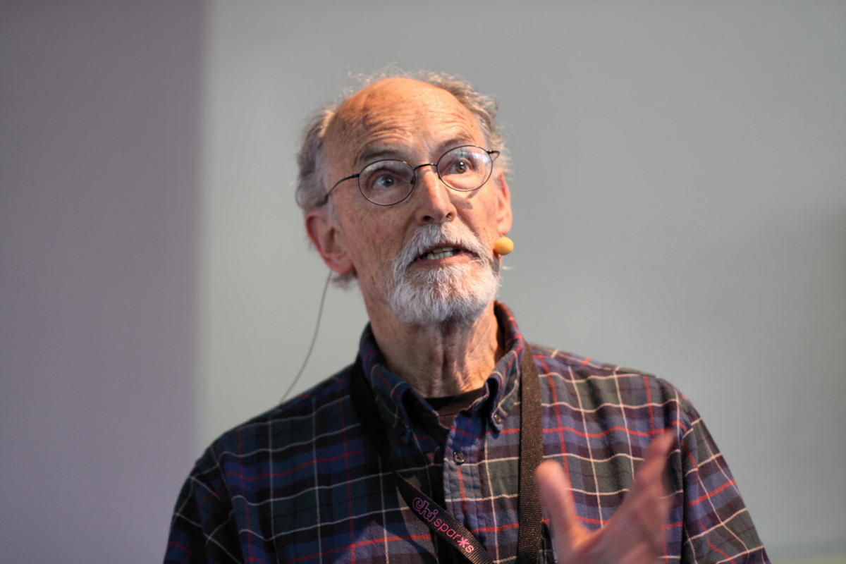 Bill Verplank giving a presentation about explorations of tangible interaction at Chi Sparks 2011, Arnhem, The Netherlands